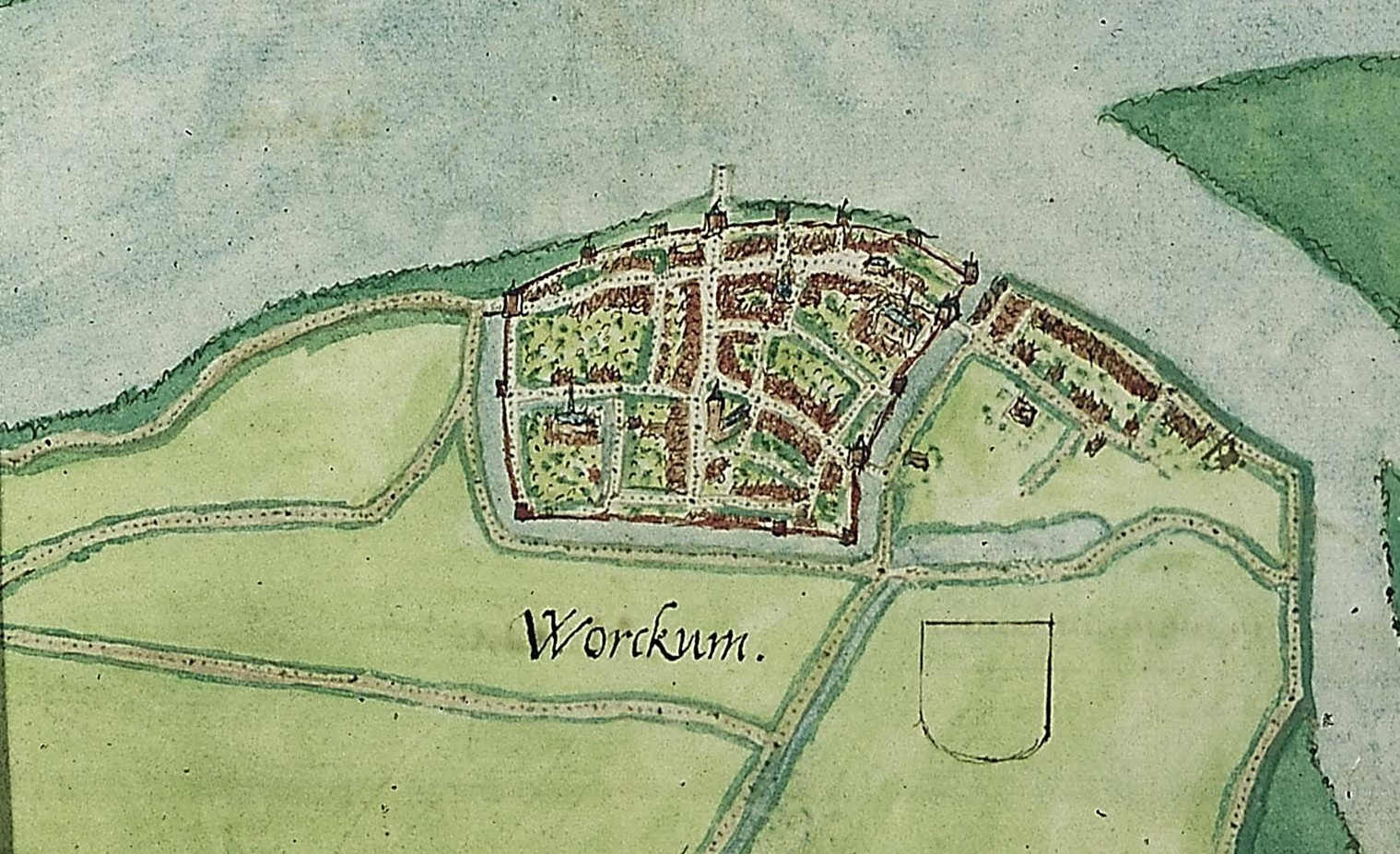 Detailed map of the city Woudrichem from city maps of Gorinchem and Woudrichem. Made by Jacob van Deventer 1545